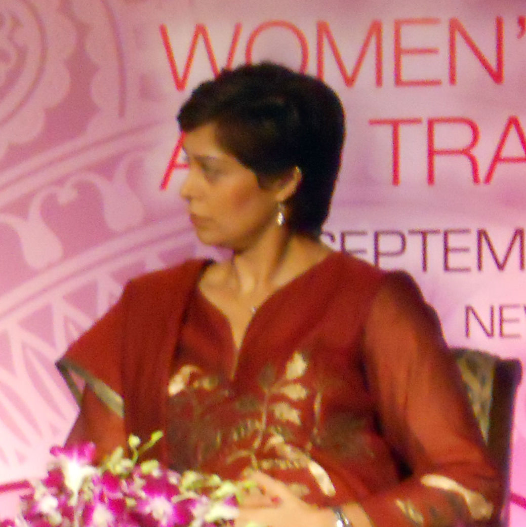 CNN International's Zain Verjee at the Vital Voices Women's Empowerment Summit in New Delhi, India, on September 15, 2010. [State Department photo/ Public Domain]